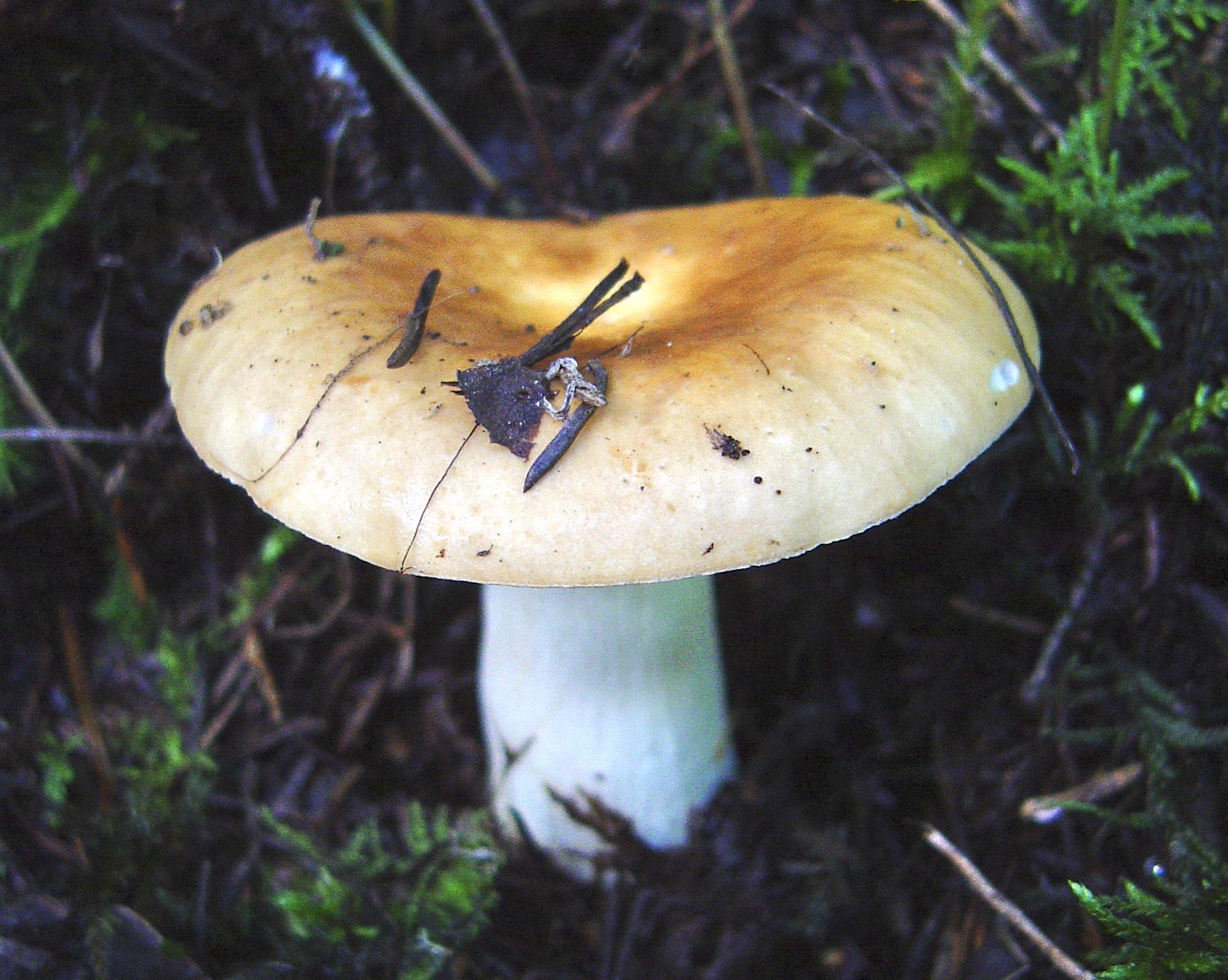 Russula mustelina Fr. Image location: Basin of Negus’yah River, Yuganskij Reserve, Khanty-Mansi Autonomous Okrug—Yugra, Russia under coniferous (Picea obovata, Abies sibirica, Pinus sibirica) cap 6-10 cm; stem 10-12 × 3 cm; spore print cream (II); smell pleasant (fruity?); taste mild; FeSO4 on flesh: orange. coll. number BAS-07082603, 07082606 Used references For more information about this, see the observation page at Mushroom Observer.